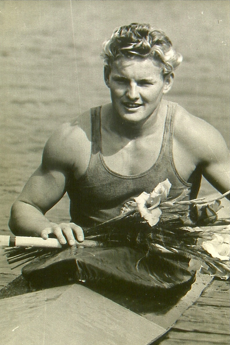 Dieter Krause in the 60th